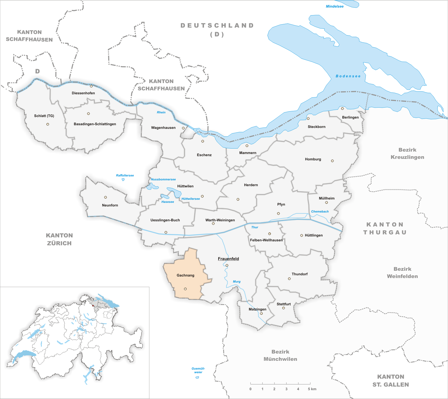 Municipality Gachnang